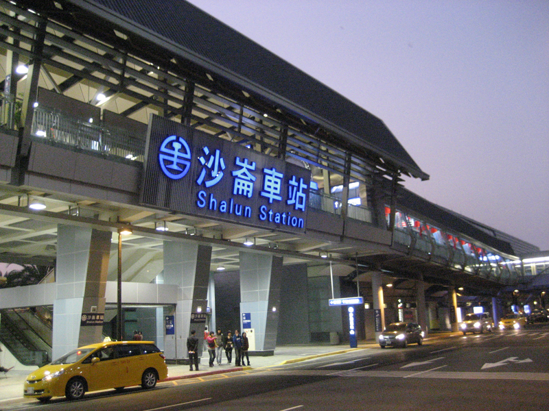 Night in TRA Shalun Station.